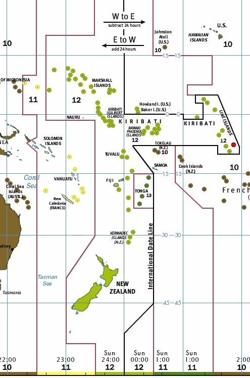 Adapted South Pacific version of the post-1995 International Date Line, with Caroline Island highlighted